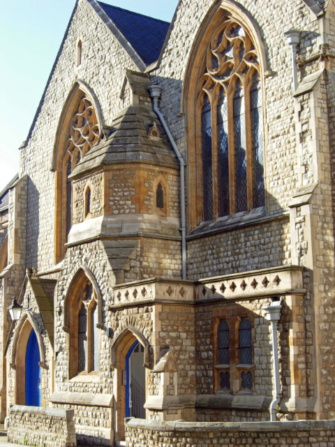 St Michael's Church Belgravia, near to Chelsea, Kensington And Chelsea, Great Britain. This Anglican church, in Chester Square, was designed by Thomas Cundy II in 1844.